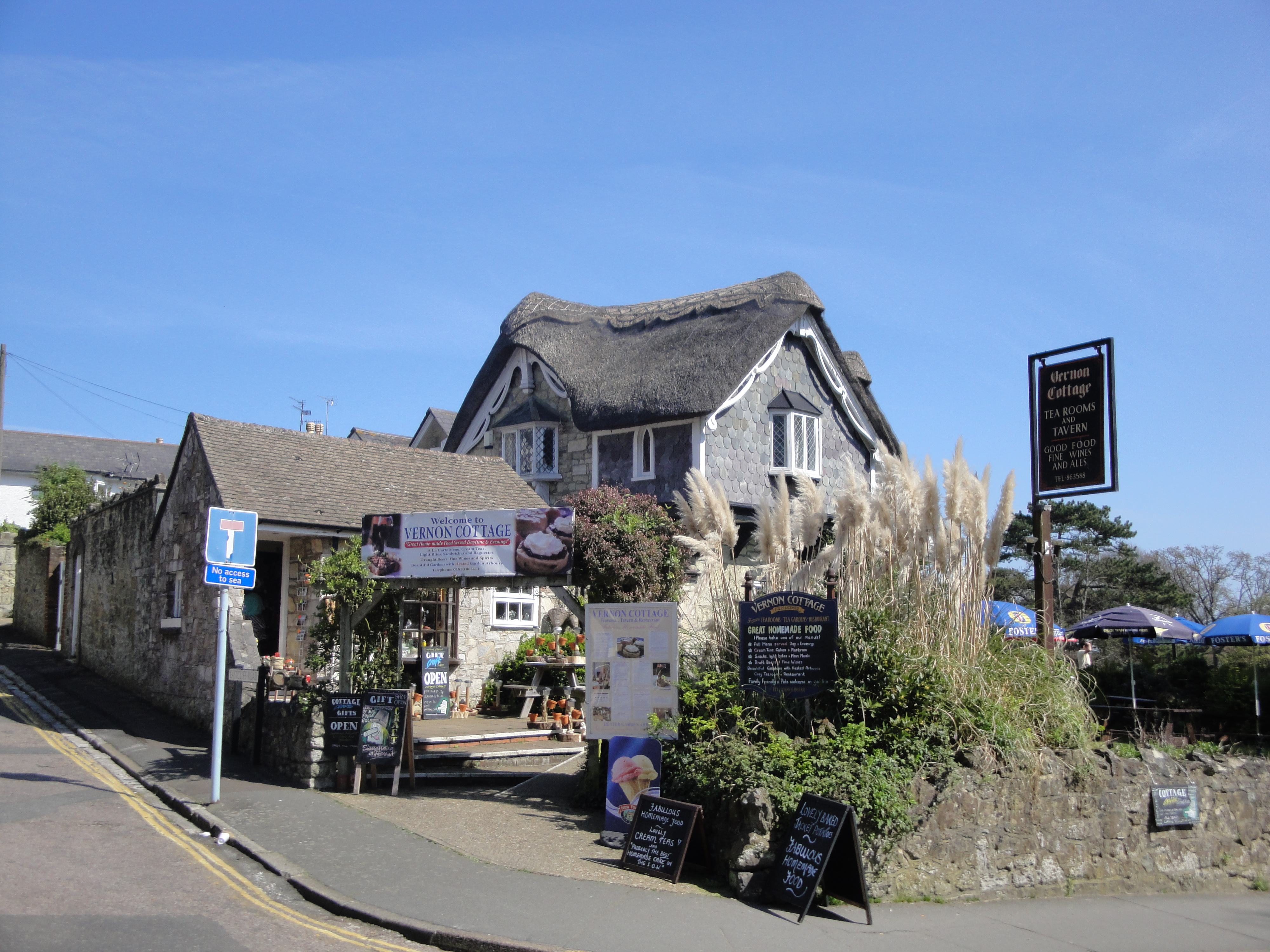 Vernon Cottage, a tearoom off the High Street, Shanklin, Isle of Wight in an area called the Old Village